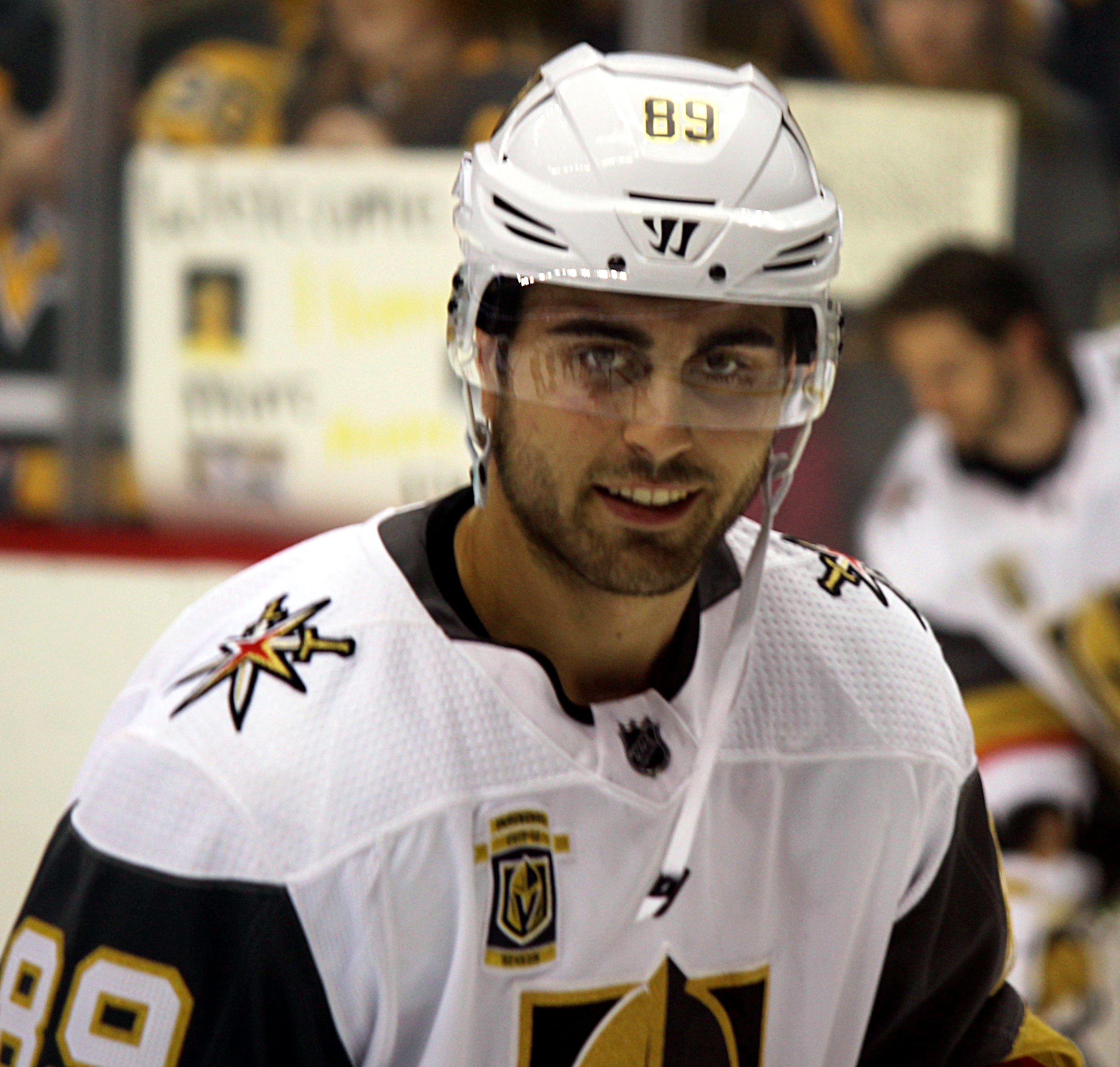 Vegas Golden Knights forward Alex Tuch during a game against the Pittsburgh Penguins, February 6, 2018, at PPG Paints Arena in Pittsburgh, PA.